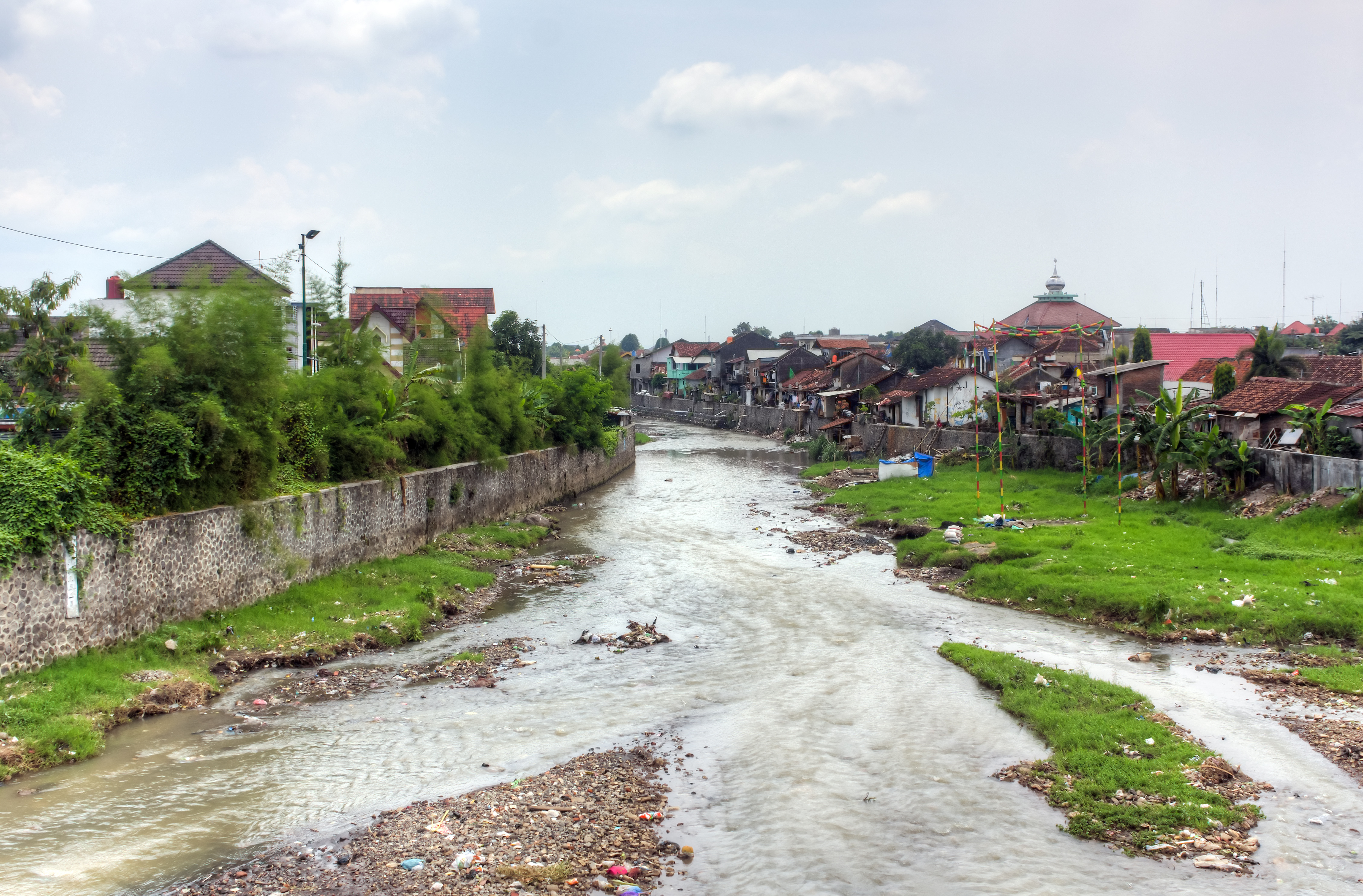 Code River, Yogyakarta, as viewed from the bridge across the river at Prawirodirjan, Gondomanan, Yogyakarta. Looking south.